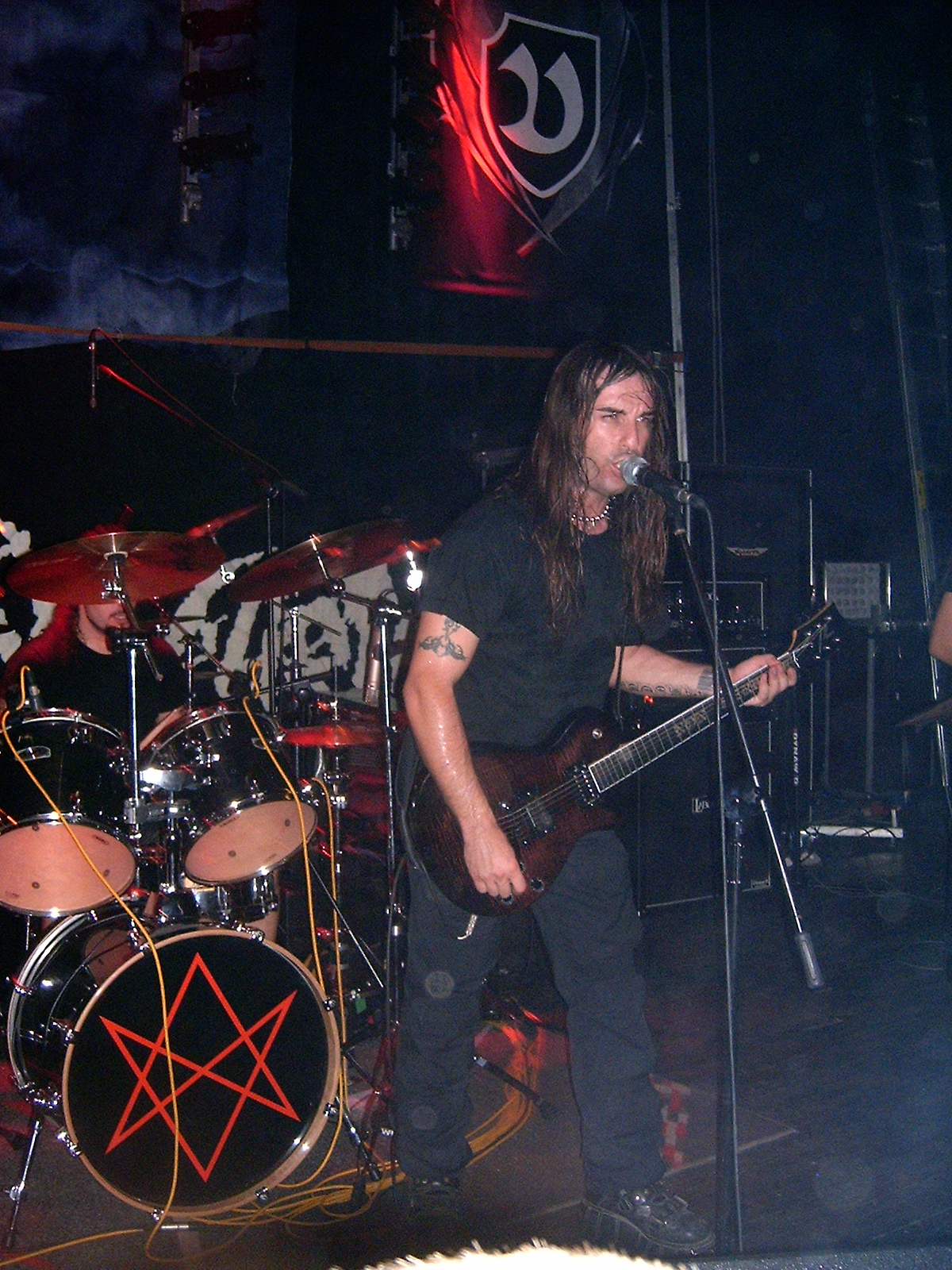 Rotting Christ a black metal band playing live on tour with Vader in Poland